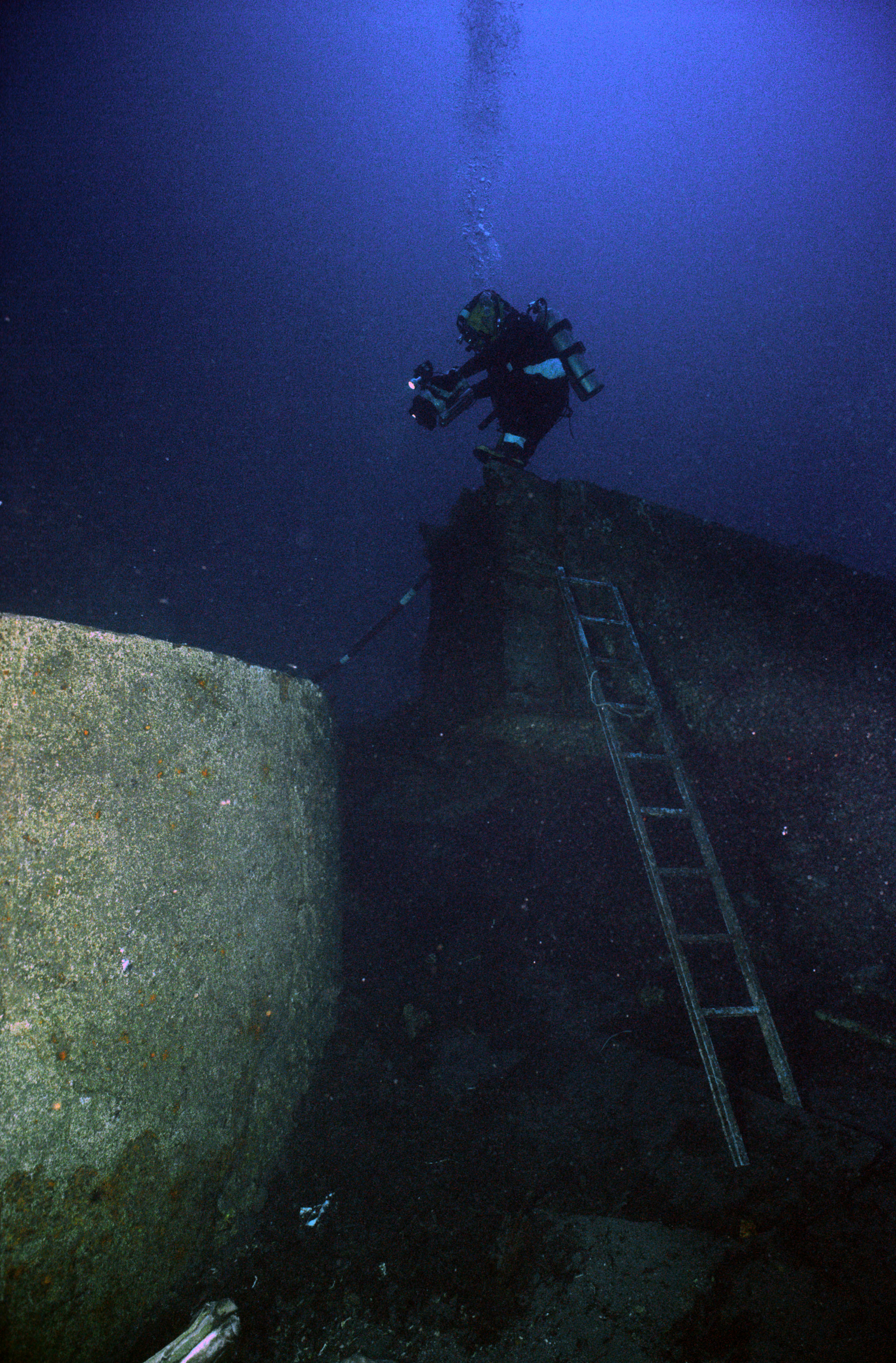 Cape Hatteras, N.C. (Jul. 6, 2002) -- Photographer’s Mate 1st Class Chadwick Vann shoots video of the inside of USS Monitor's turret after a section of armor belt was removed to facilitate lifting the turret, during the raising of the ship. Since its designation as our nation's first marine sanctuary in 1975, the Monitor has been the subject of intense investigation. The turret was the first revolving gun of its kind and will eventually be on public display in the Mariners’ Museum in Newport News, Va. The famed warship sank 240 feet to the ocean floor during a heavy storm off Cape Hatteras on Dec. 31, 1862. Four officers and 12 men were lost. U.S. Navy photo by Chief Photographer’s Mate Eric J. Tilford. (RELEASED).